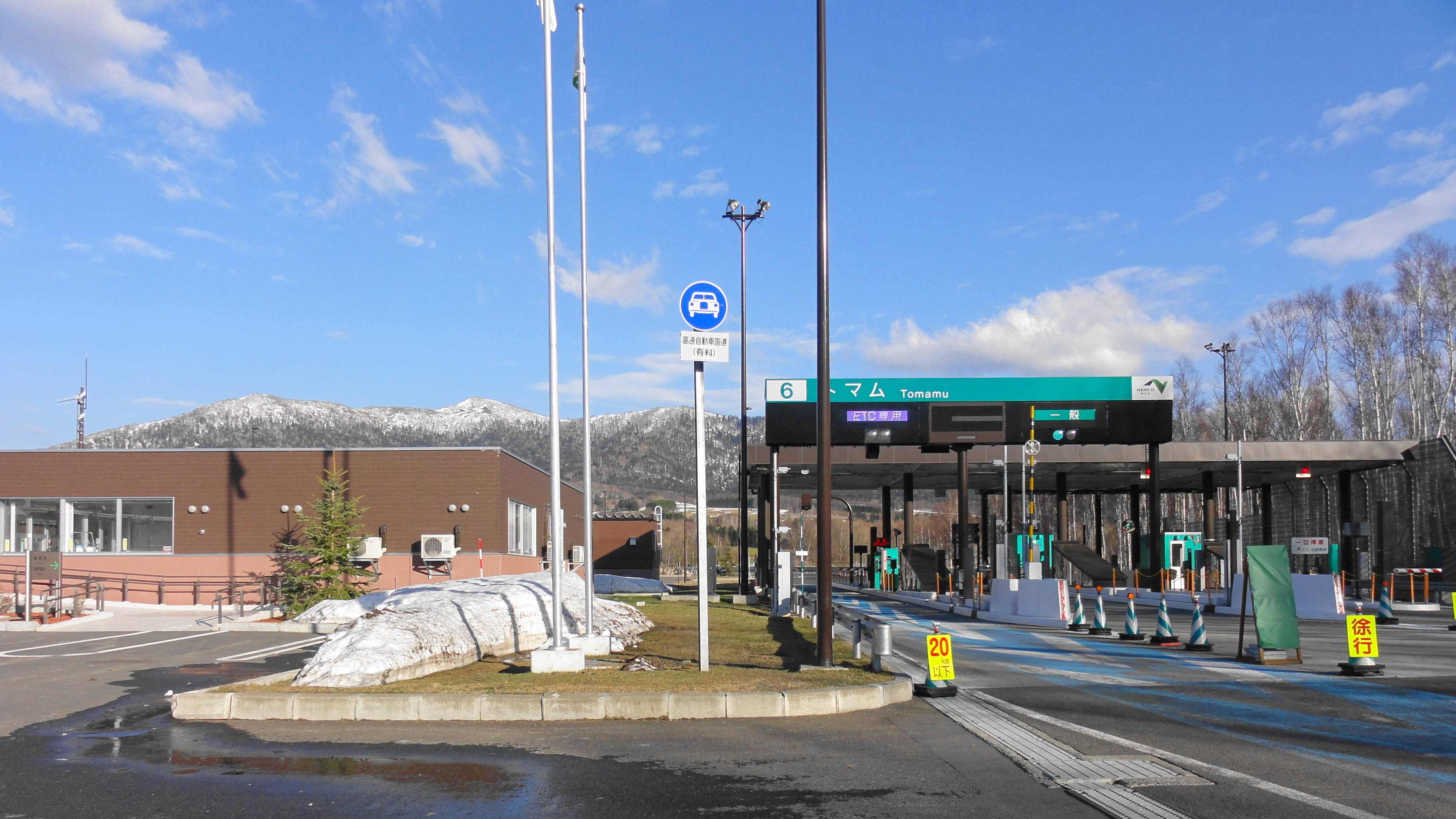 Tomamu Interchange on the Doto Expressway in Shimukappu Village, Hokkaido, Japan